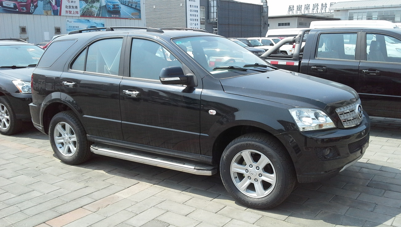 Huanghai Landscape photographed in Beijing, China.